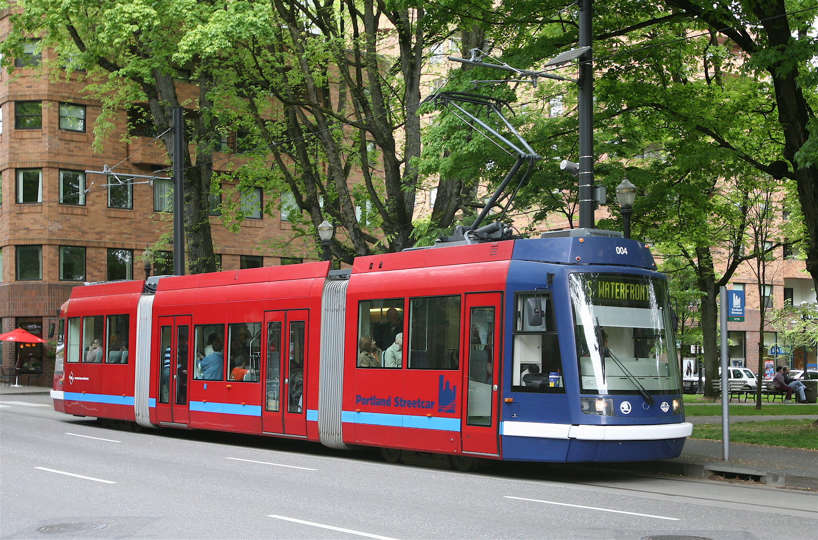 A car of the Portland Streetcar system at the eastbound Portland State University stop, on Market Street at the South Park Blocks.